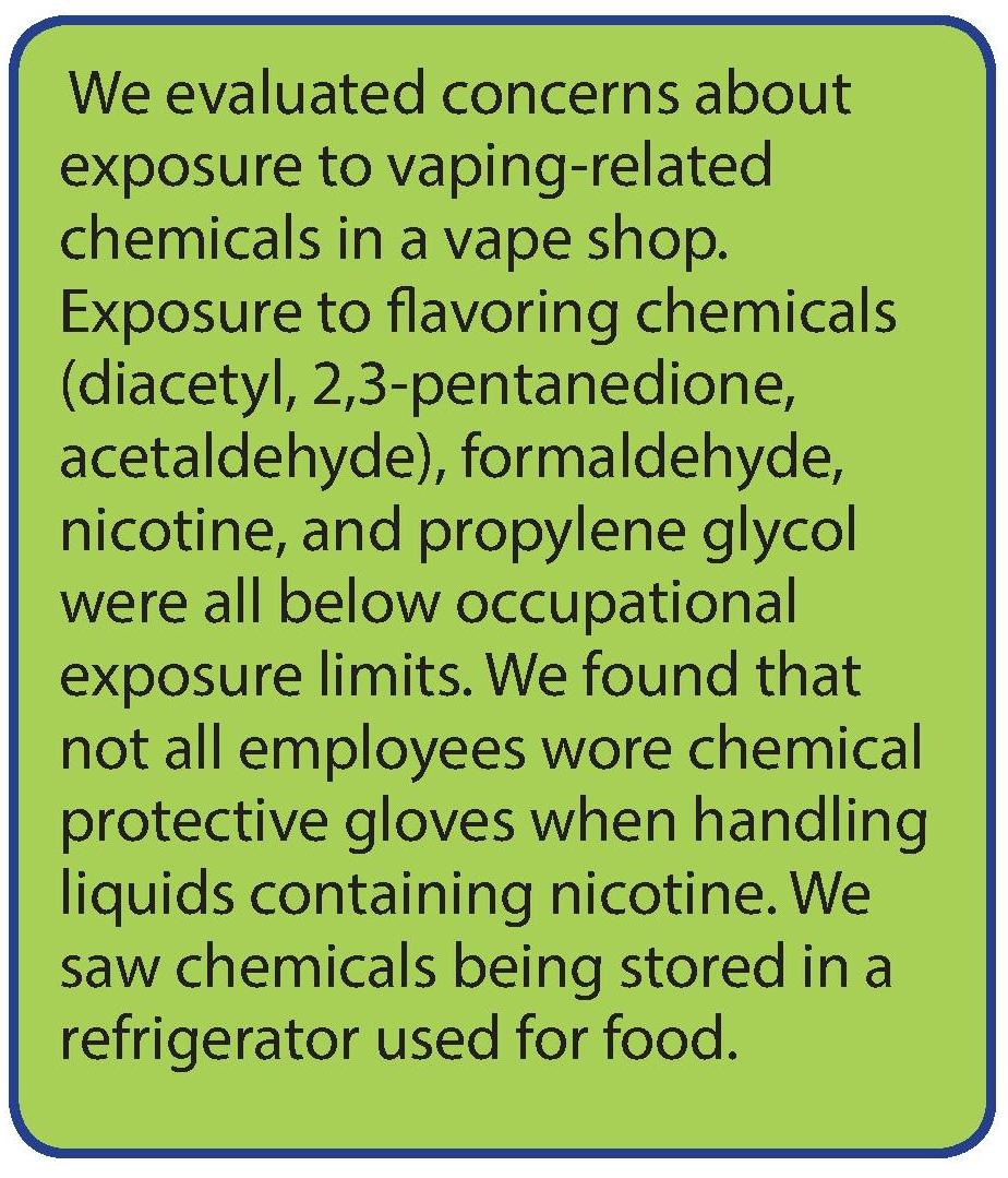 Department of Health and Human Services Center for Disease Control report, Evaluation of Chemical Exposures at a Vape Shop